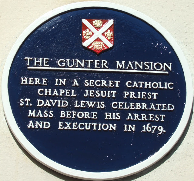 commemorative plaque for the Gunter Mansion